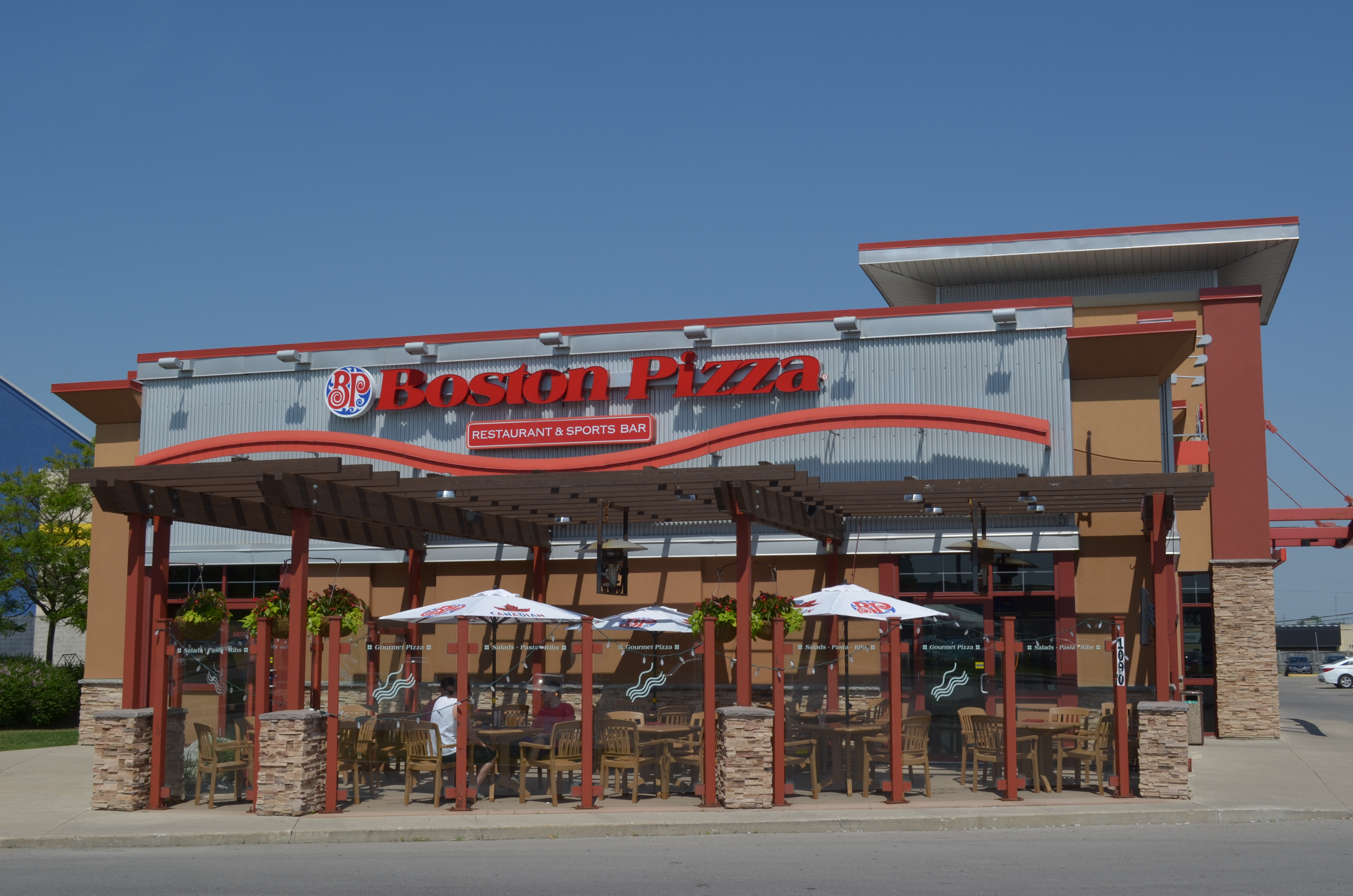 Boston Pizza - 1090 Wellington Road South, London, ON